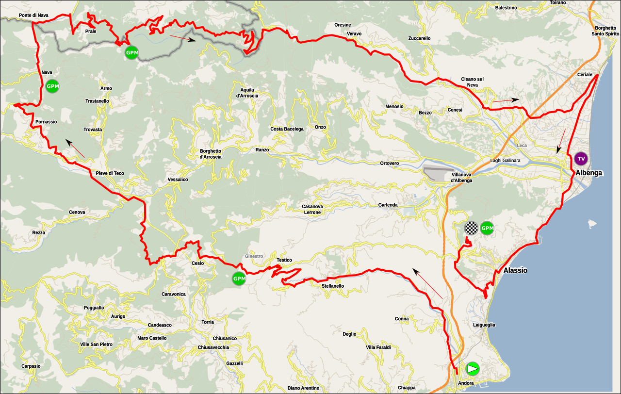 Map of the stage 6 of the Giro rosa 2016.